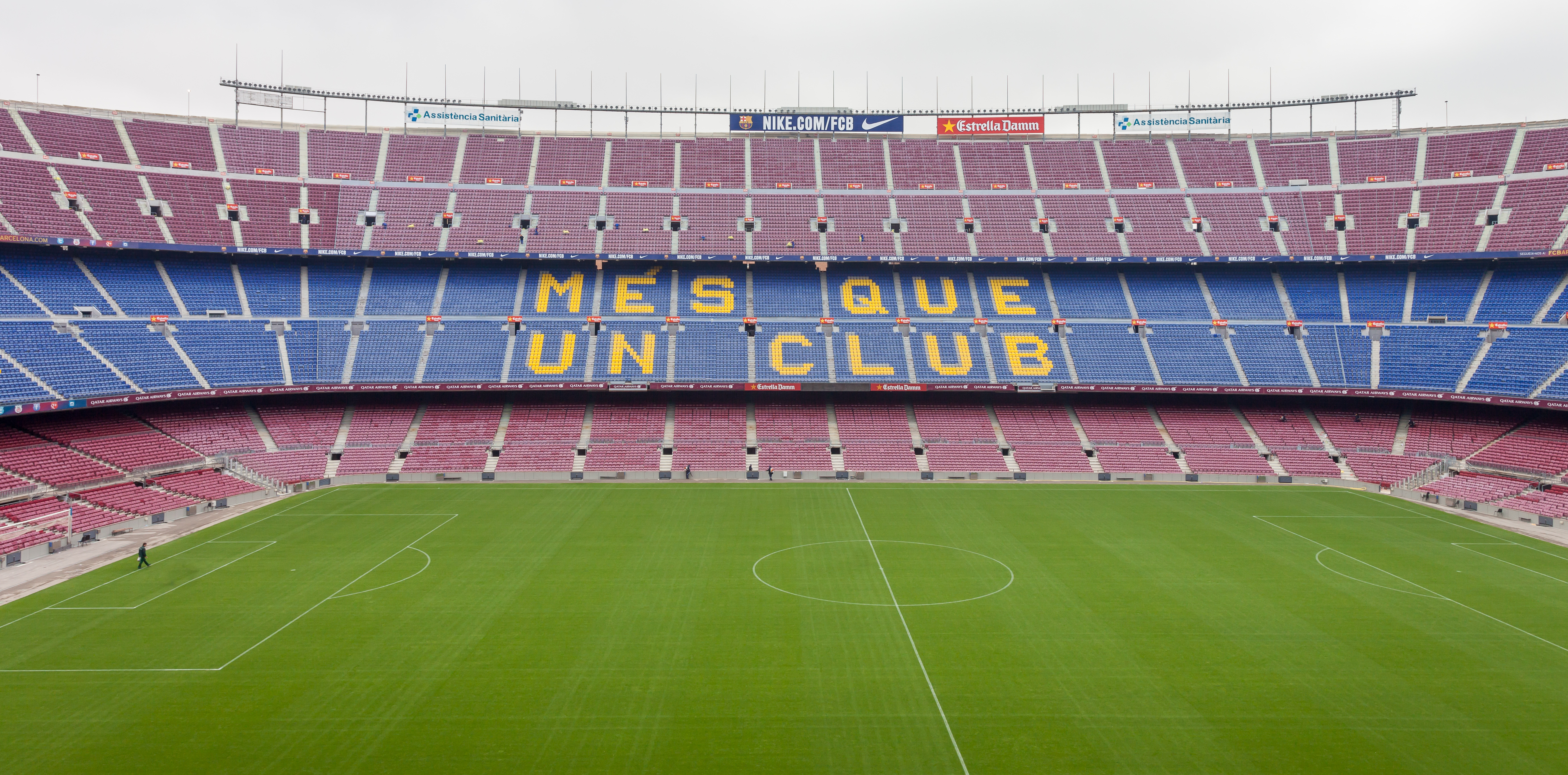 Camp Nou. Barcelona